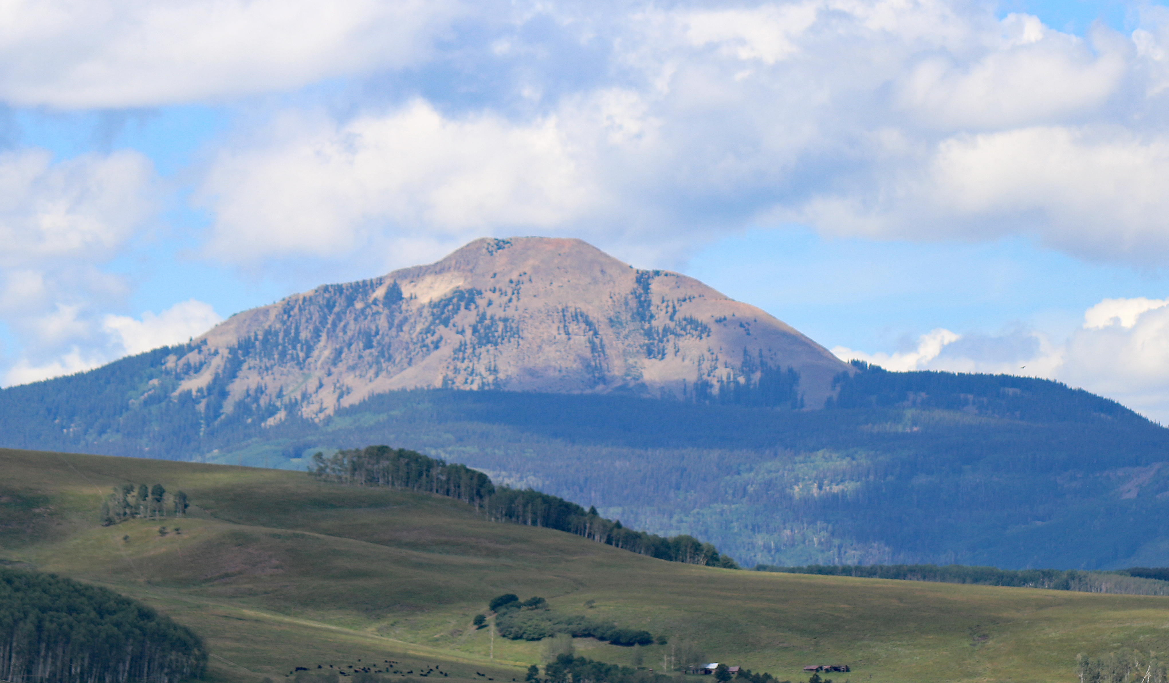 Little Cone, a mountain in San Miguel County, Colorado, elevation 11,988 feet (3,654 meters).